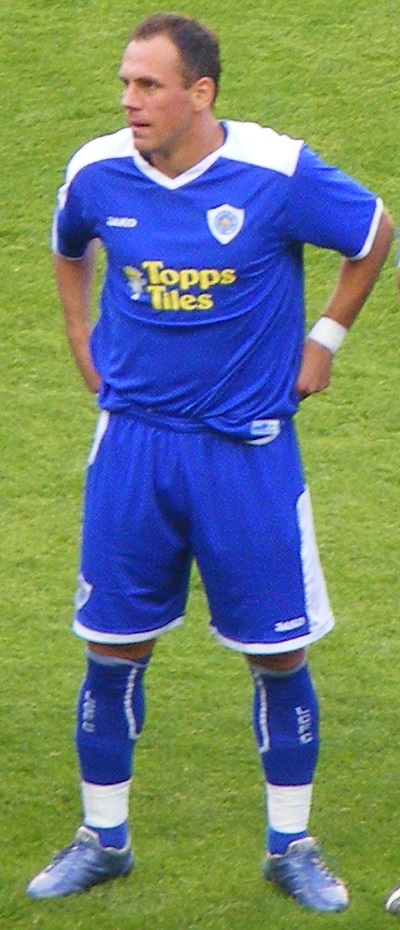 Radostin Kishishev. Image cropped from original at Flickr.